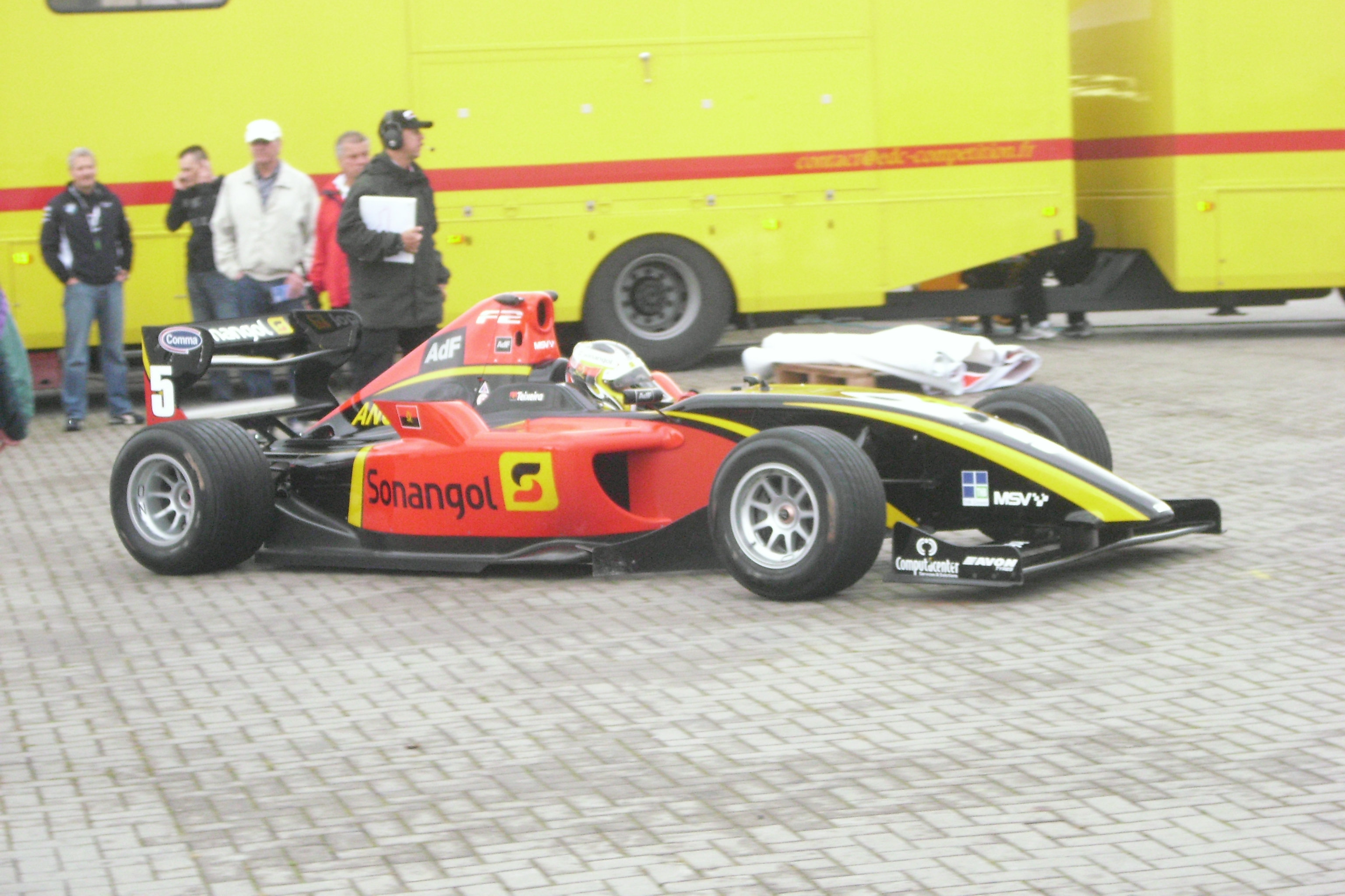 Racing driver Ricardo Teixeira moves his Williams JPH1B F2 to the race circuit. The photo was photographed in Oschersleben (Germany).